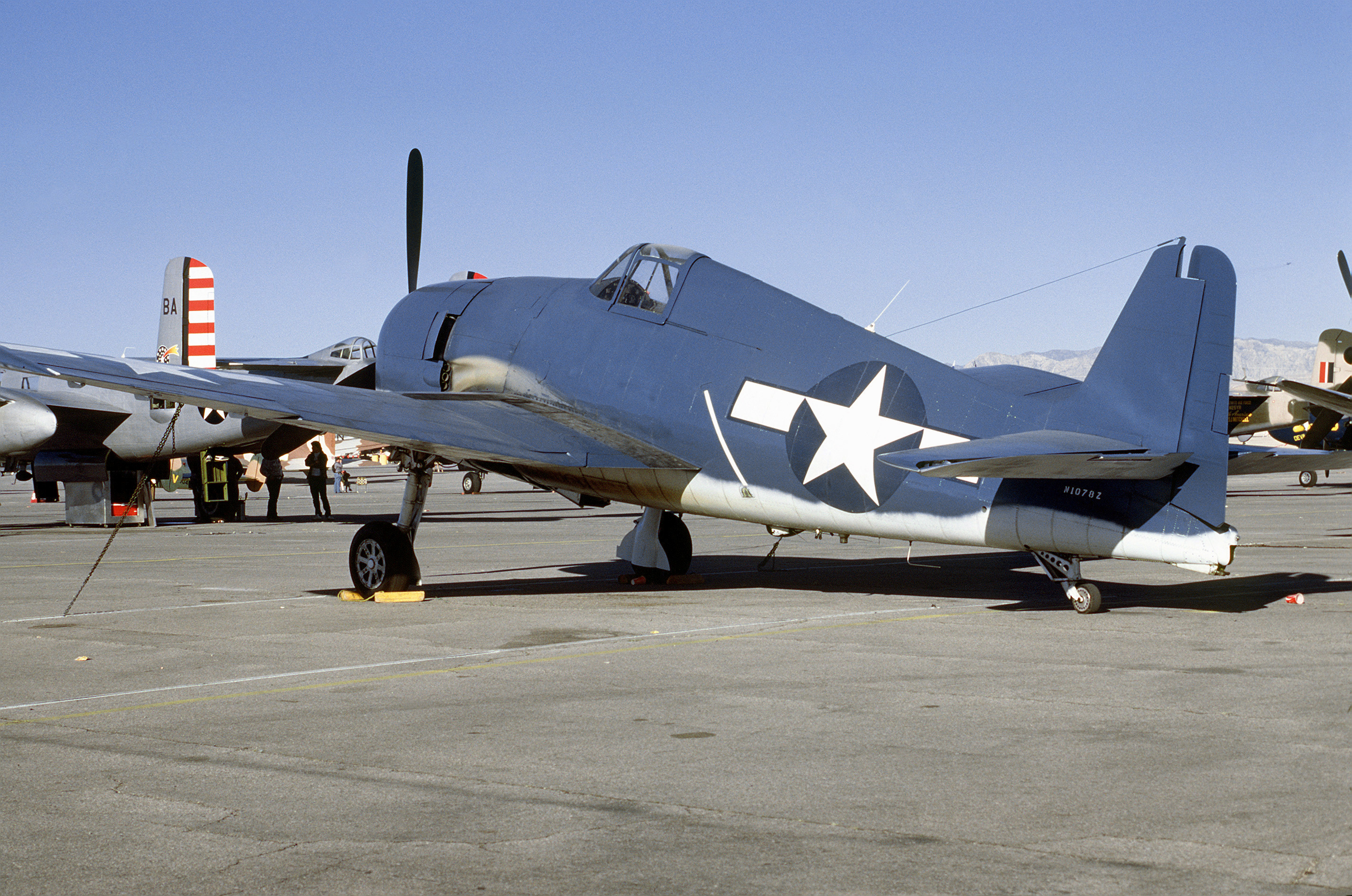 Grumman F6F Hellcat fighter on the flight line at McCarran Airport, Las Vegas, Nevada. F6F Hellcat the USAF Gathering of Eagles convention.